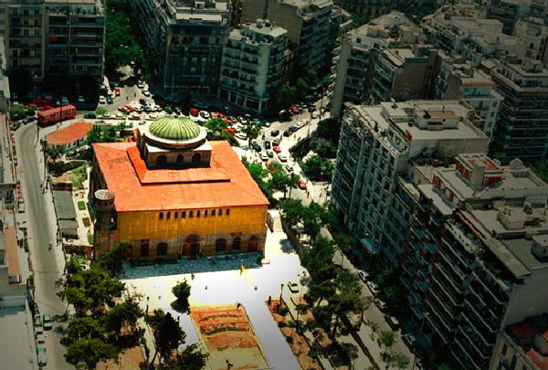 Looking down at Hagia Sophia Square in Thessaloniki, Greece.